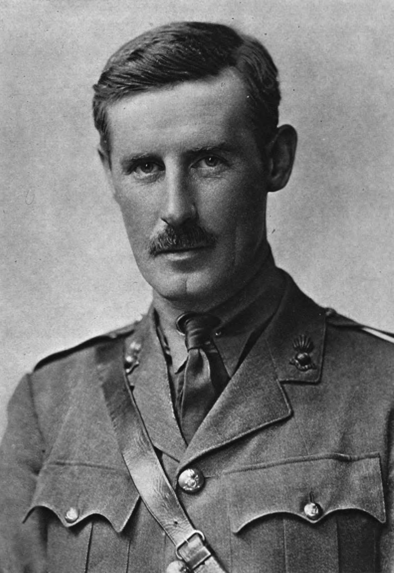 Image of Herbert Asquith (1881-1947) from The Bookman Special Christmas Number (December 1918)